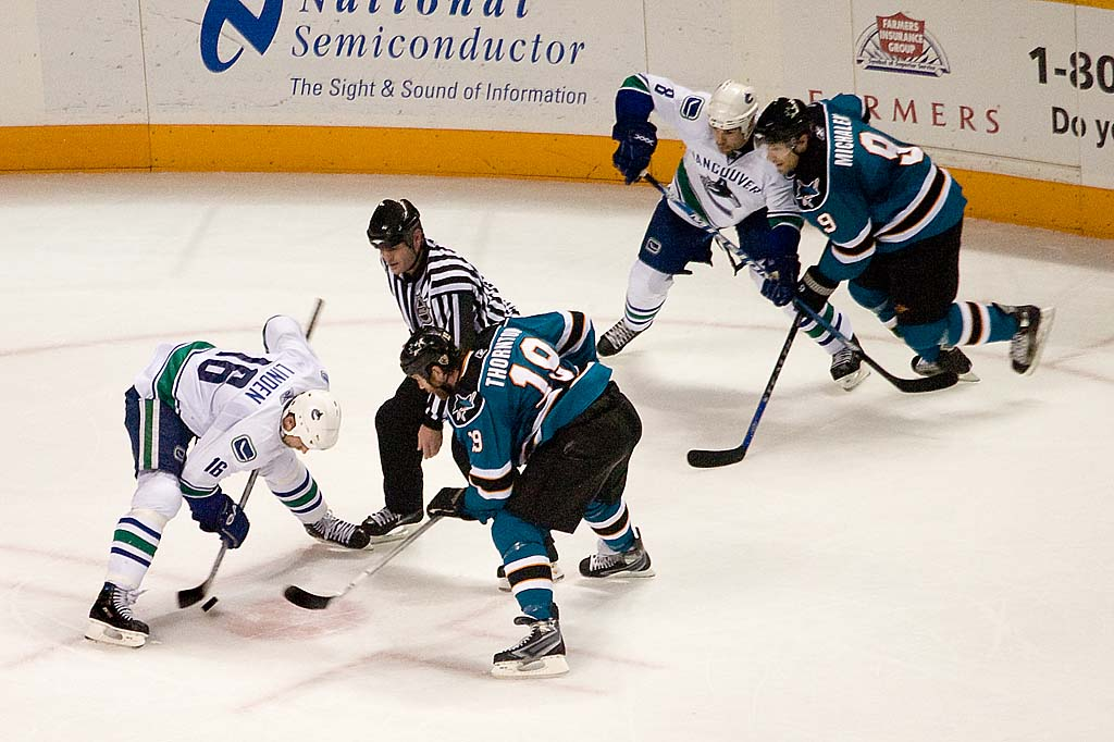 Vancouver Canucks vs. San Jose Sharks